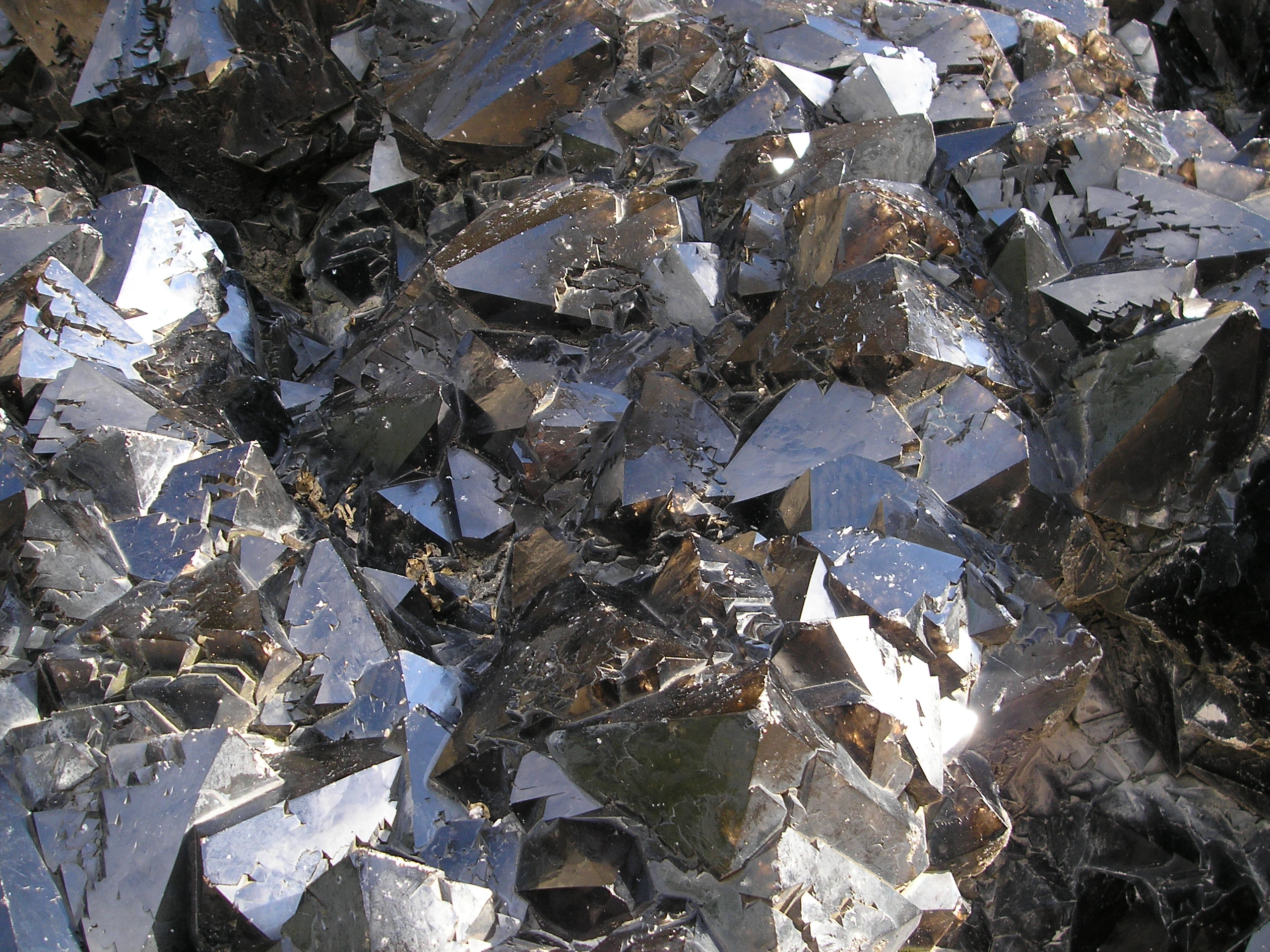 Image of an enormous block of smoky quartz at the entrance of the galerie de Minéralogie et de Géologie in the Jardin des plantes in Paris.